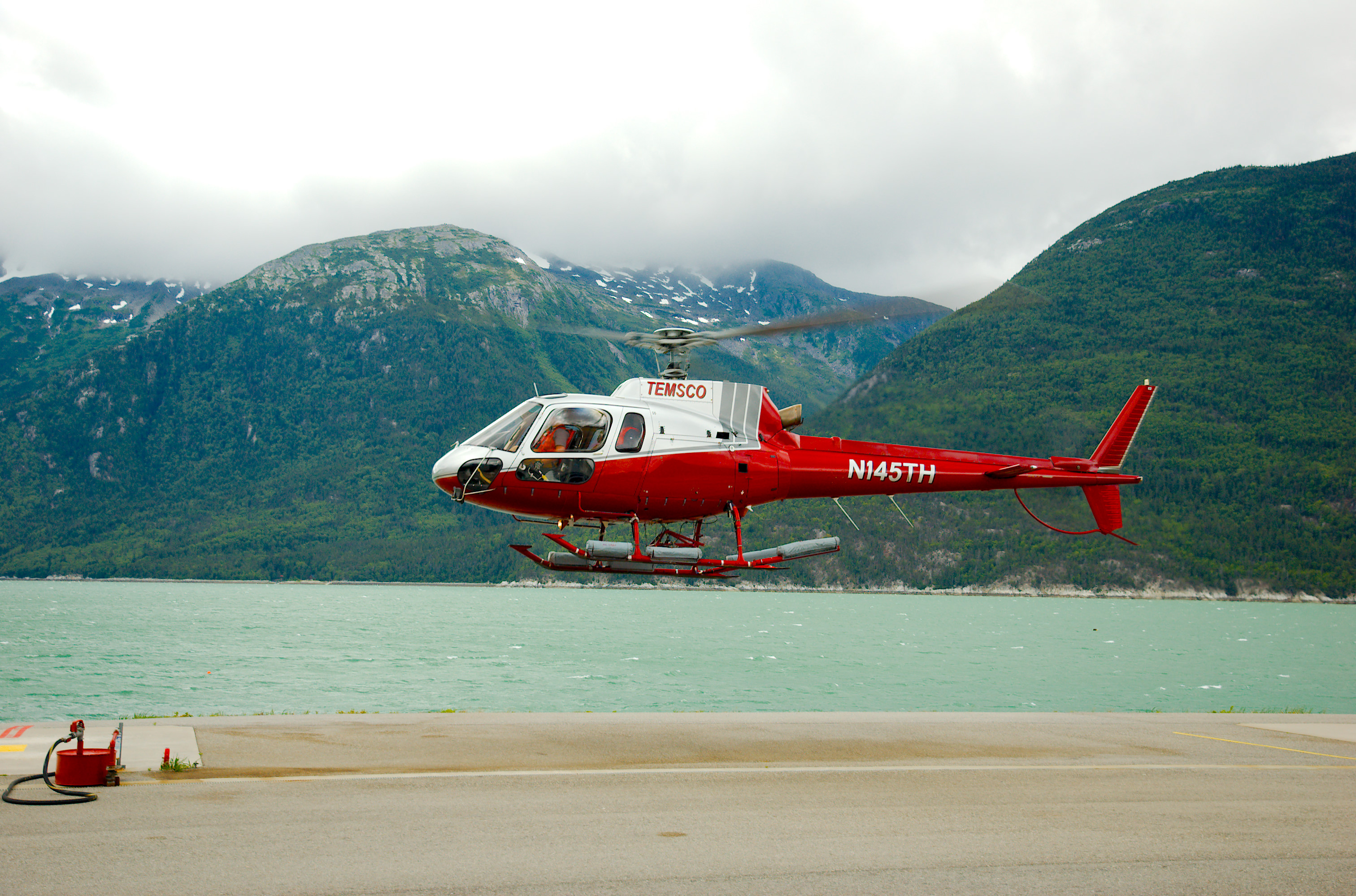 A Eurocopter turboshaft powered helicopter (N145TH) used for sightseeing tours in Skagway, Alaska